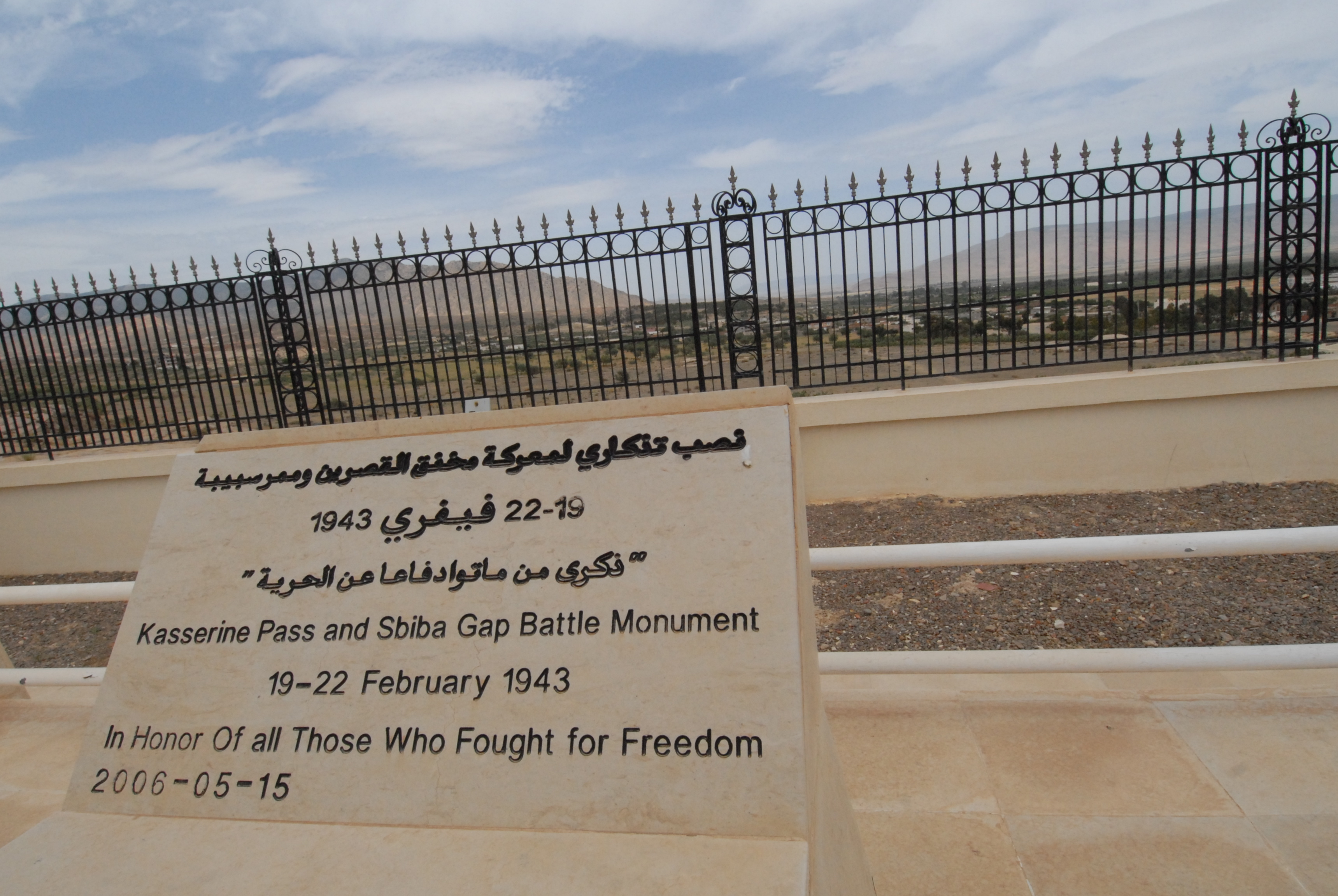 Kasserine Pass and Sbiba Gap Battle MonumentU.S. Army photo by Rick ScavettaCleared for Public Release